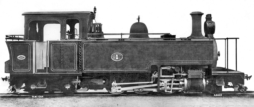 Manning Wardle works picture no. 1564, CGR Type A 2-6-4T no. 31 of 1902, later SAR no. NG25